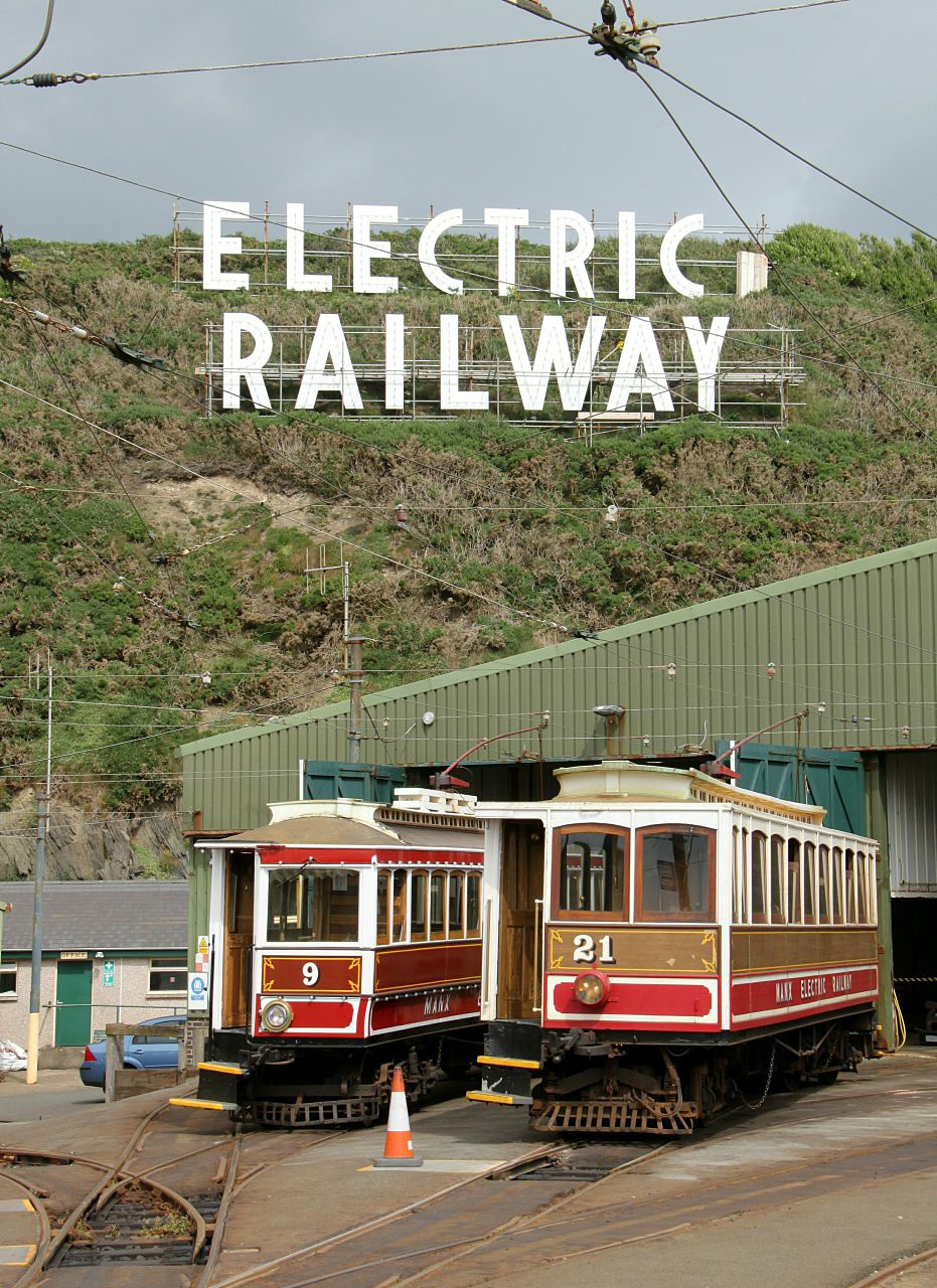 Electric Railway at Derby Castle. Manx Electric Railway cars pose in the depot yard in front of the giant sign on the hillside. As far as I am aware, there has been a large sign like this from quite early in the railway's history, pre-dating its more famous counterpart at Hollywood.